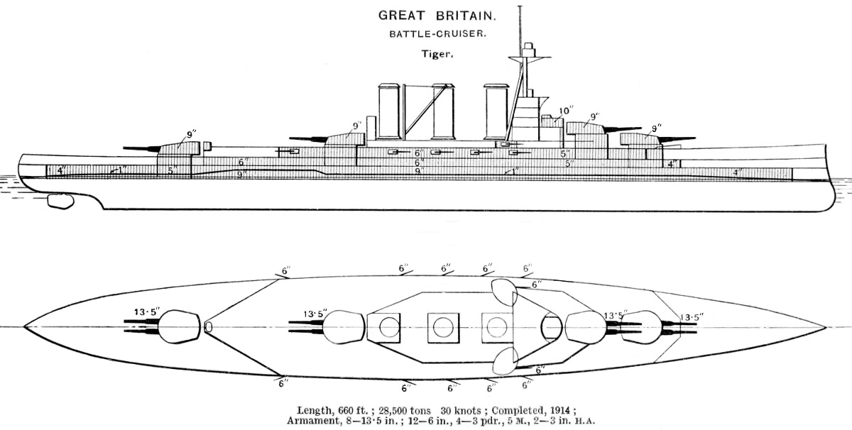 Right elevation and deck plan diagrams depicting British battlecruiser HMS Tiger.